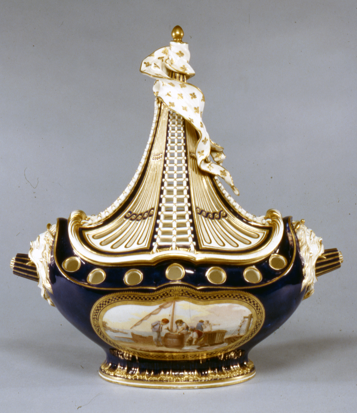 The harbor scenes showing sailors packing fish are by Jean-Louis Morin (1732-1787).